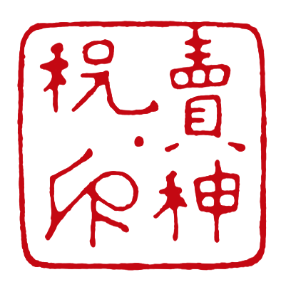 Imprint of the Megamihōri-no-in (売神祝印) of the Lower Shrine of Suwa in Nagano Prefecture.